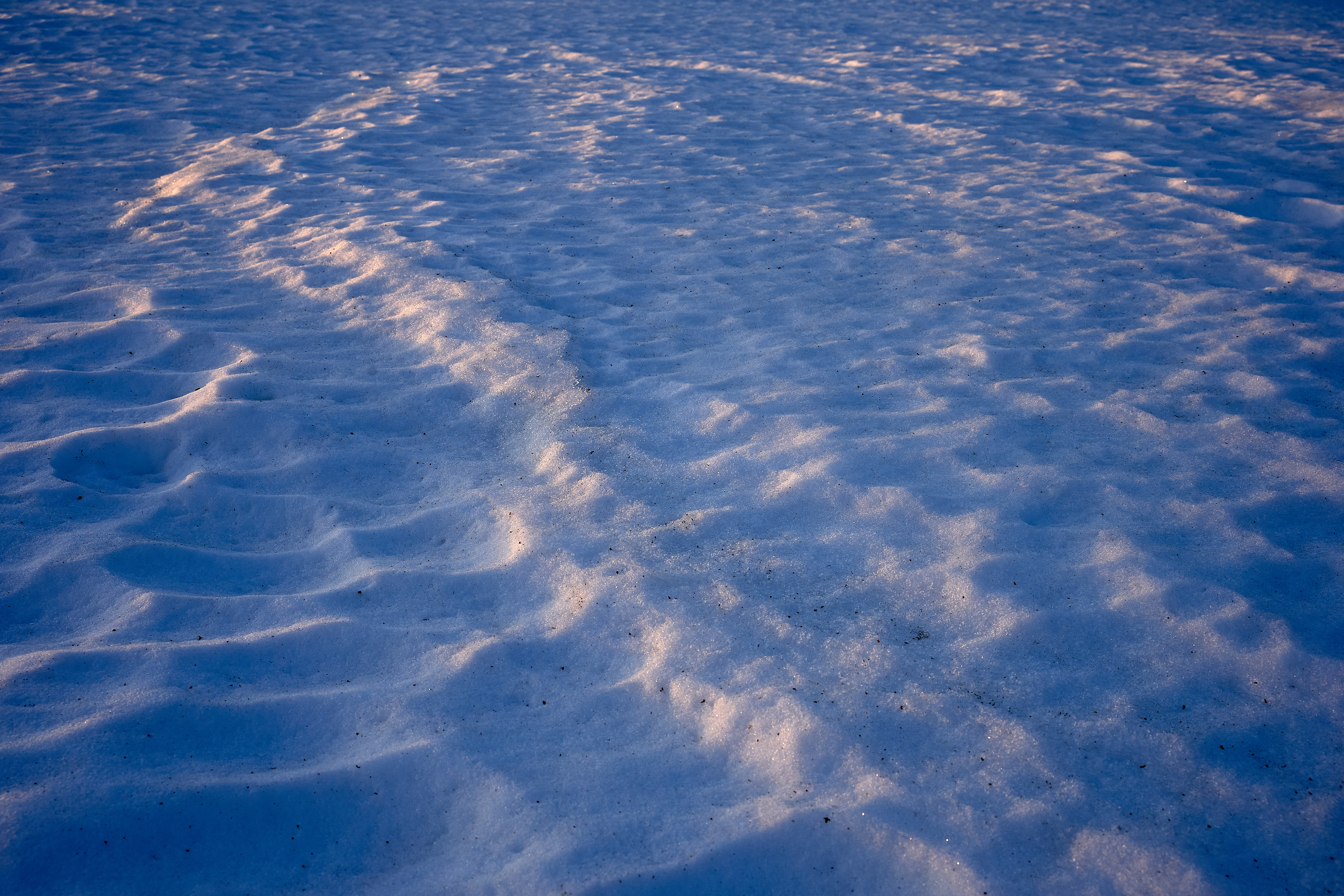 Crust snow.